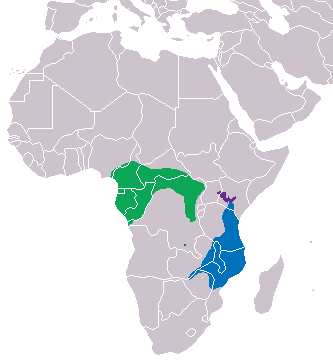 Derived from constituent taxa. Bdeogale crassicauda - blue Bdeogale jacksonii - violet Bdeogale nigripes - green